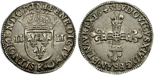 Silver french coin - Louis XIV. Quart d'écu (30 mm, 9.48 g). minted 1643 LVDOVICVS. XIV. D: G. FRAN. ET. NAV. REX ., cross fleury SIT. NOMEN. DOMINI. BENEDICTVM, crowned arms flanked by II II